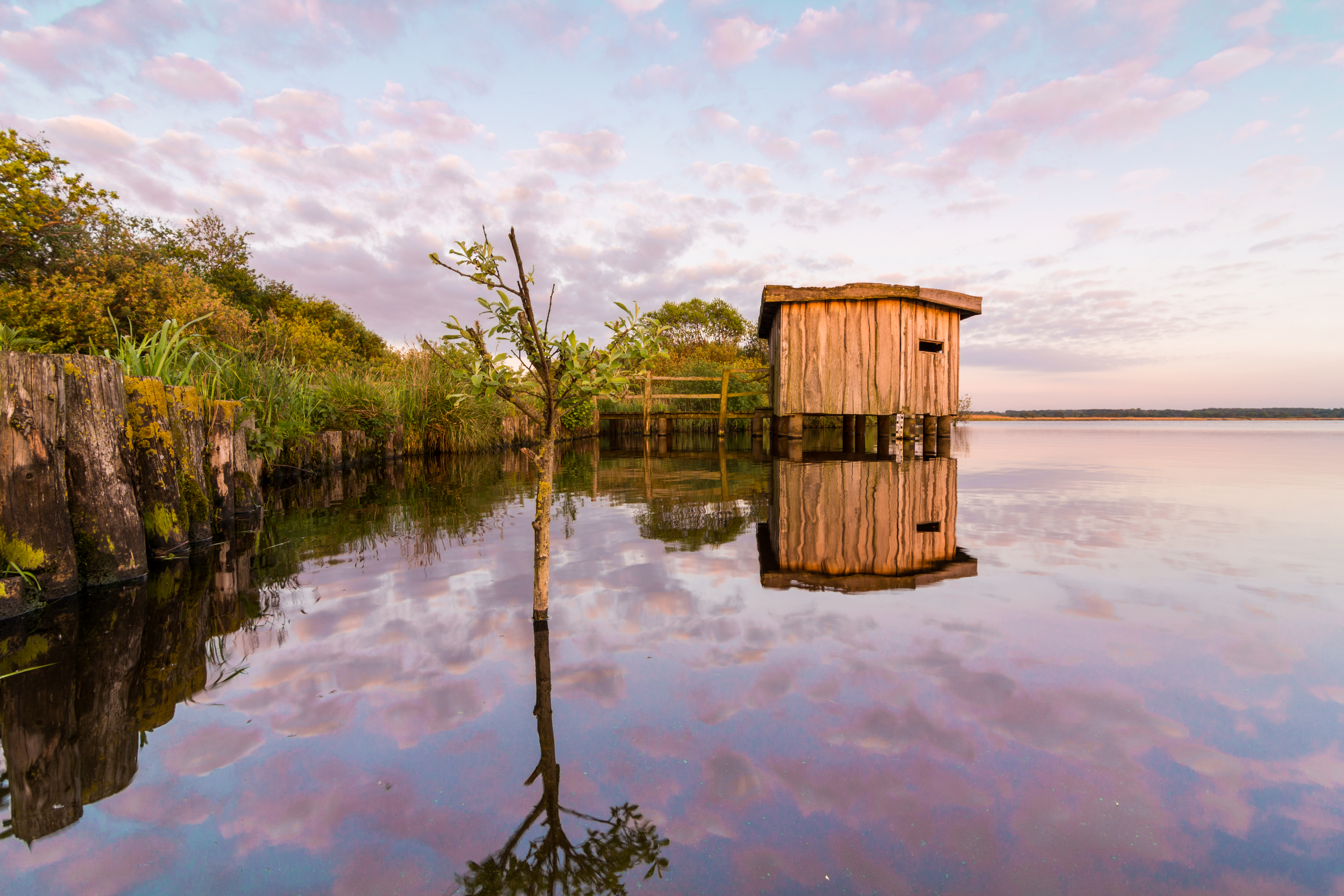 Especially in the morning and evening hours, one can enjoy the view of the water and the waterfowl from this shelter at the "Hohner See" in Schleswig-Holstein, Germany.